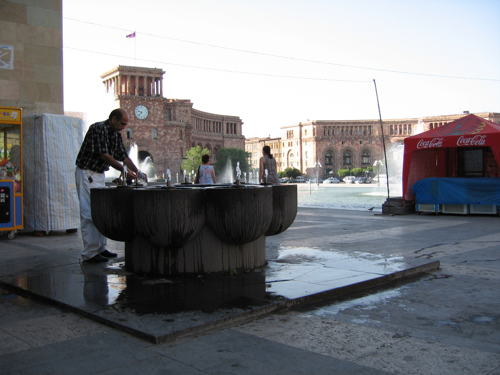 The famous water fountain (pulpulak) in the Republic Square, Yerevan, Armenia